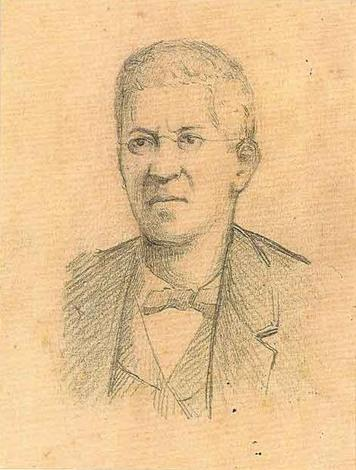 Drawing of Miguelzinho Dutra.